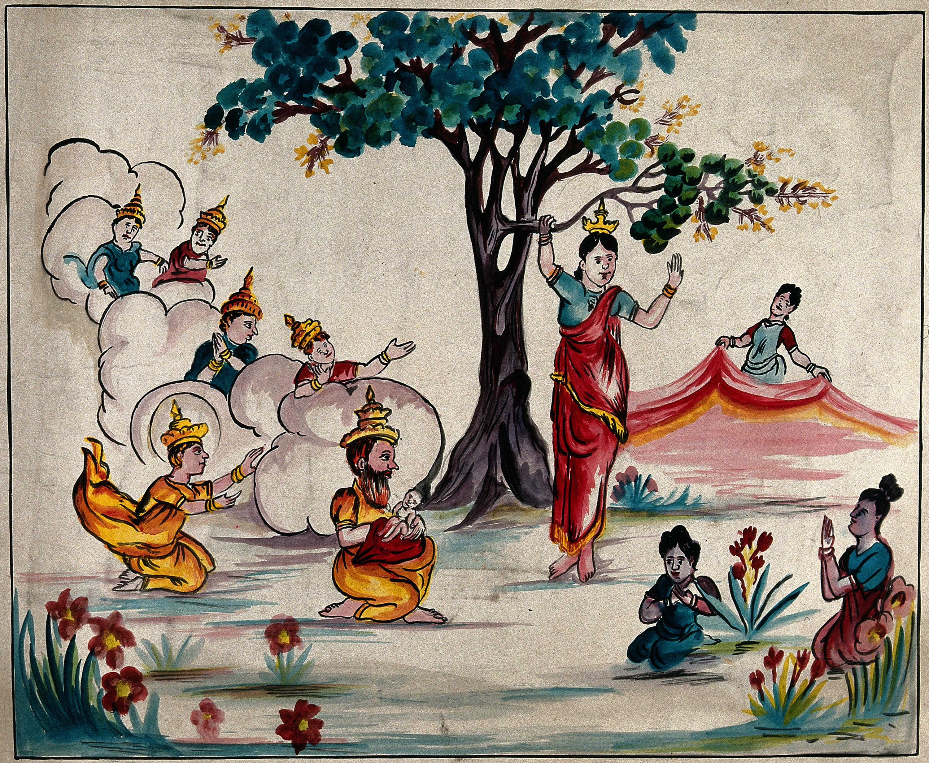 The birth of the Buddha: Queen Maya holds on to the branch of a tree while giving birth to the Buddha, who is received by god Indra as other gods look on. Iconographic Collections Keywords: God; India; Buddhism; Buddha; Sri Lanka; Worship